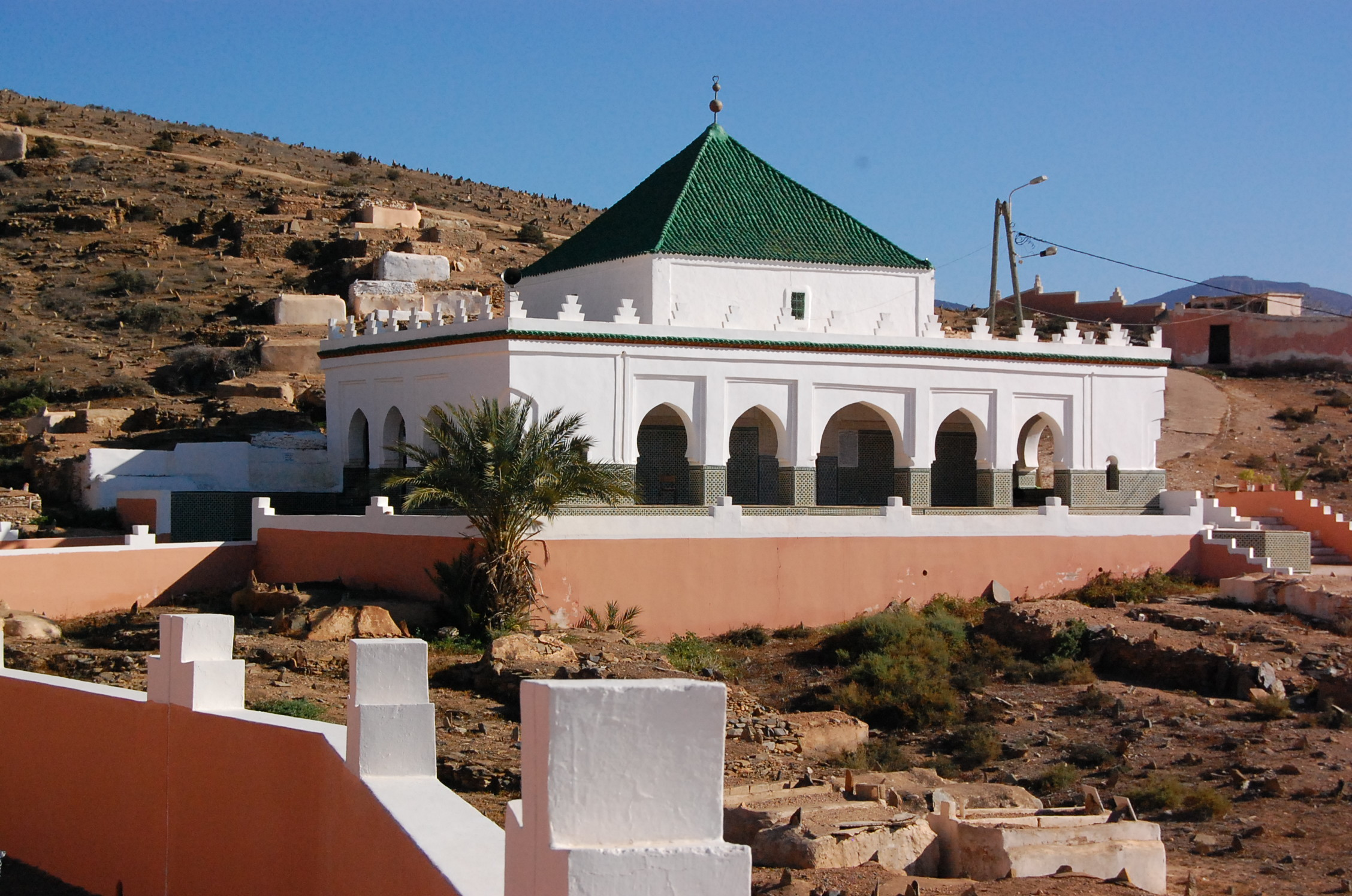 Walon: Tombe-tchapele do sint Ahmed Ou Moussa a Zawiya Sidi Ahmed Ou Moussa (Tazerwalt)